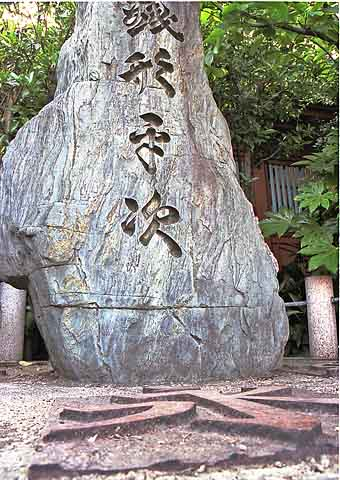 Monument to Zenigata Heiji (Jidaigeki character) at Kanda Myojin Shinto shrine, Kanda, Chiyoda Japan I took this photograph and contribute it to the public domain.